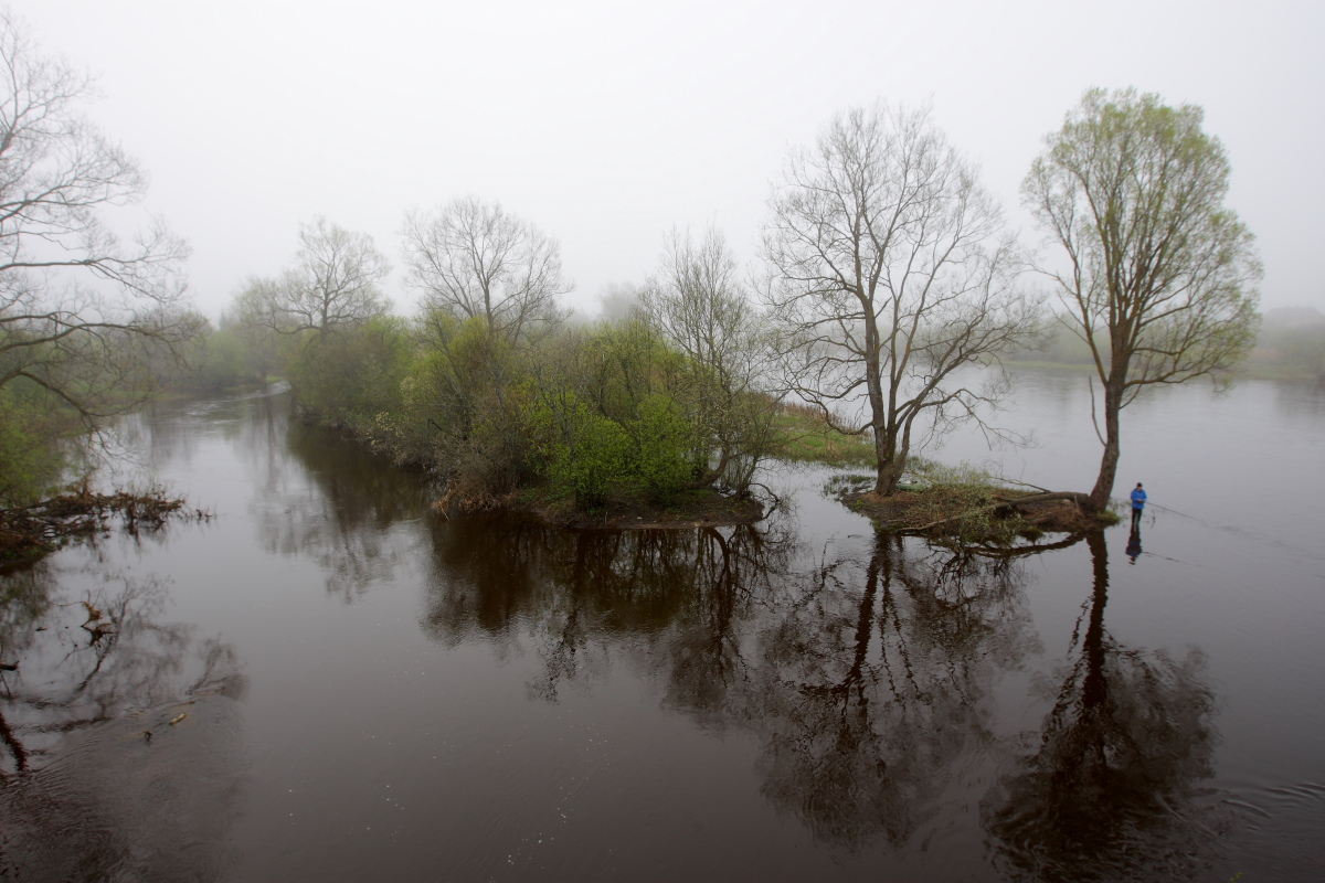 The Kasari river in Matsalu National Park, Lääne County, Estonia